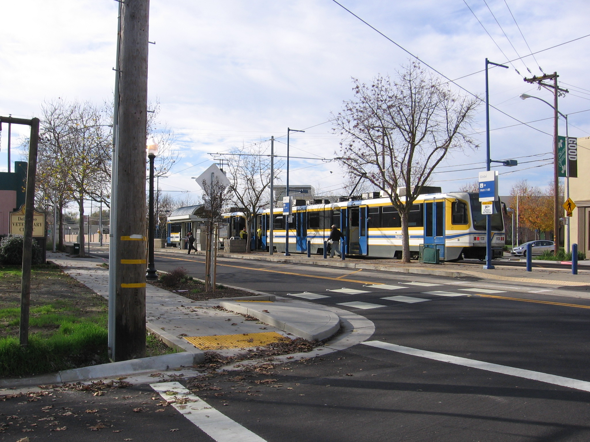 The Globe (Sacramento RT) light rail station in Sacramento, California, USA. A tram at the station as seen from the end of Globe Avenue looking west.